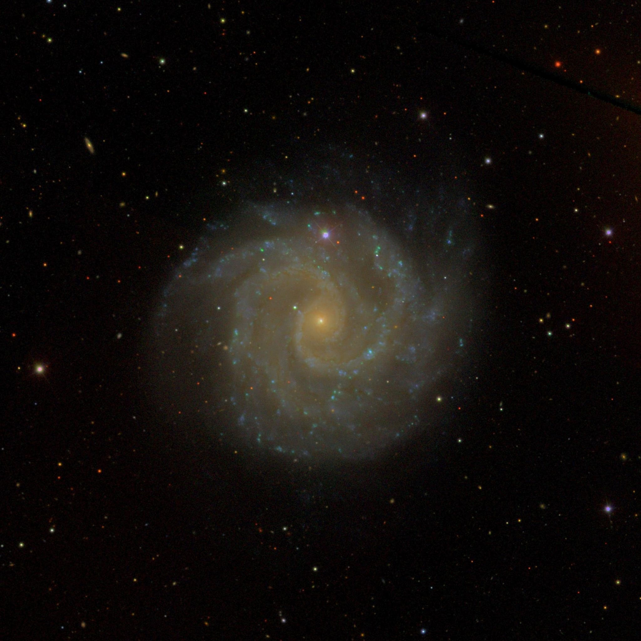 Angle of view: 13.2' × 13.2' (0.392" per pixel), north is up.